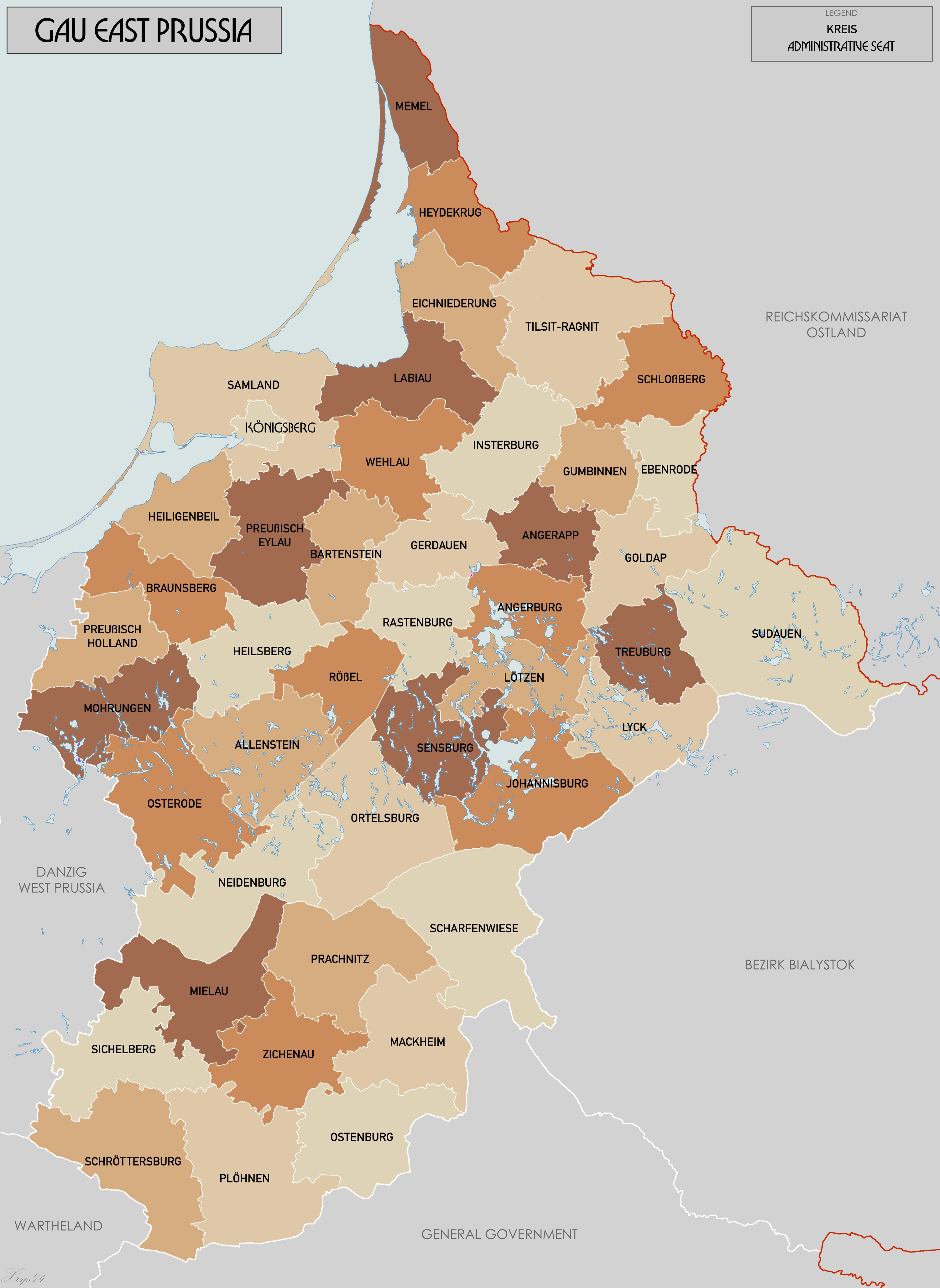 Administrative map of NS Gau East Prussia in 1944. Map data digitised from Karte des Deutschen Reiches 1:100k, Karte von Mitteleuropa 1:300k. Some source maps from WIG (